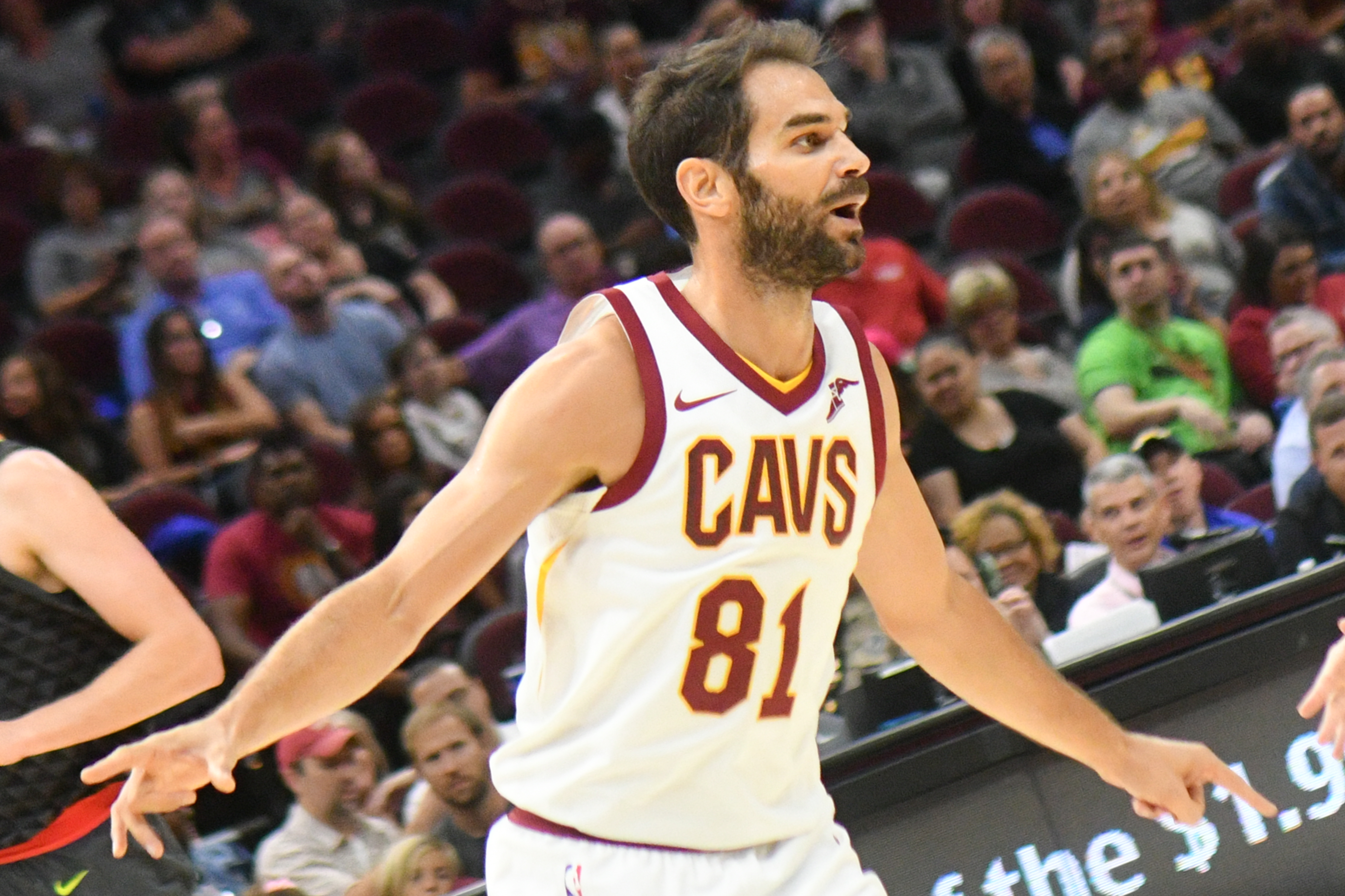 Jose Calderon in 2017.